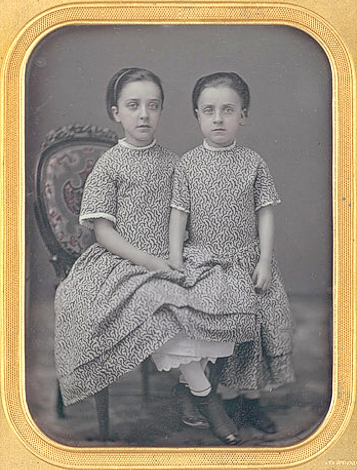 "Two Girls in Identical Dresses", Daguerreotype, 4 7/16 x 3 1/4 in. (11.3 x 8.2 cm)